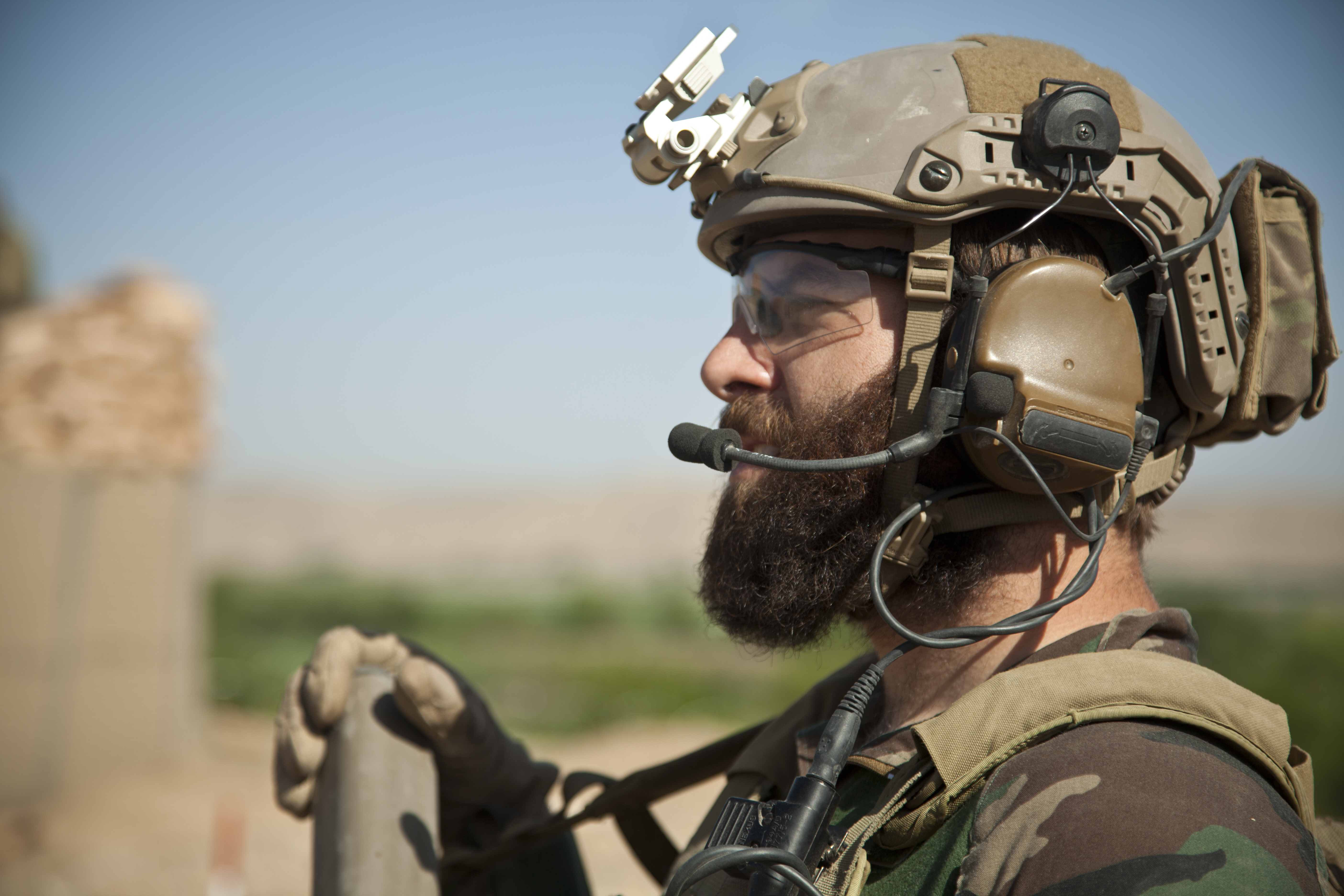 A U.S. Special Operations Marine provides security for Afghan National Army special forces soldiers and Afghan Local Police members building a checkpoint in Helmand province, Afghanistan, April 3, 2013. The Afghan Local Police was tasked with serving rural areas with limited Afghan National Security Forces presence.